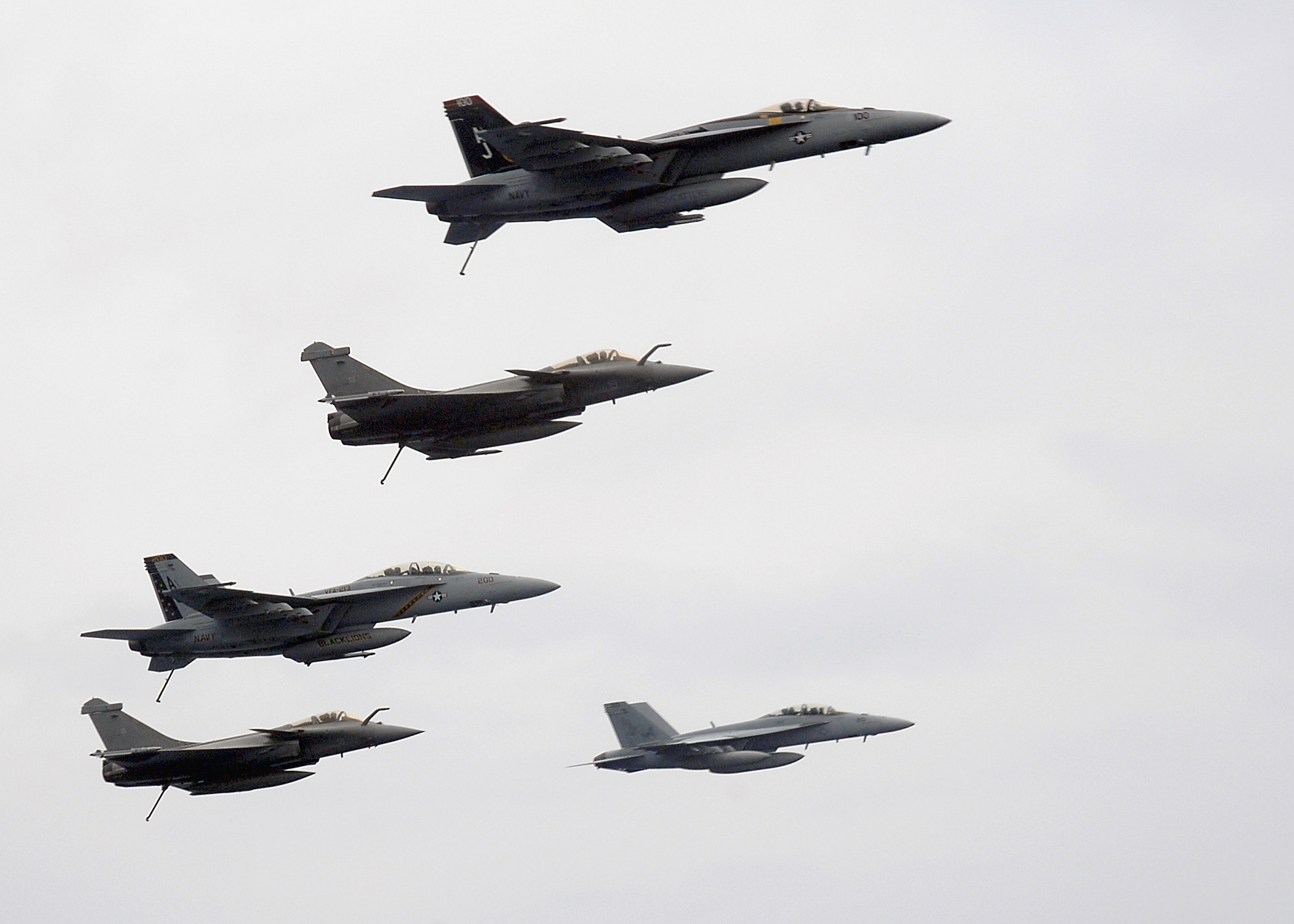 French F-2 Rafale M and American F/A-18 Super Hornet aircraft perform a fly-by over the aircraft carrier USS Theodore Roosevelt (CVN 71) during integrated French and American carrier qualifications and cyclic flight operations. The Theodore Roosevelt Carrier Strike Group is participating in Joint Task Force Exercise "Operation Brimstone" off the Atlantic coast.